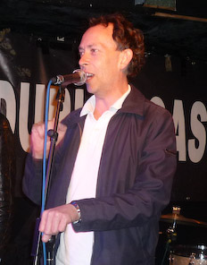 Steve Lamacq at Camden Crawl in 2011